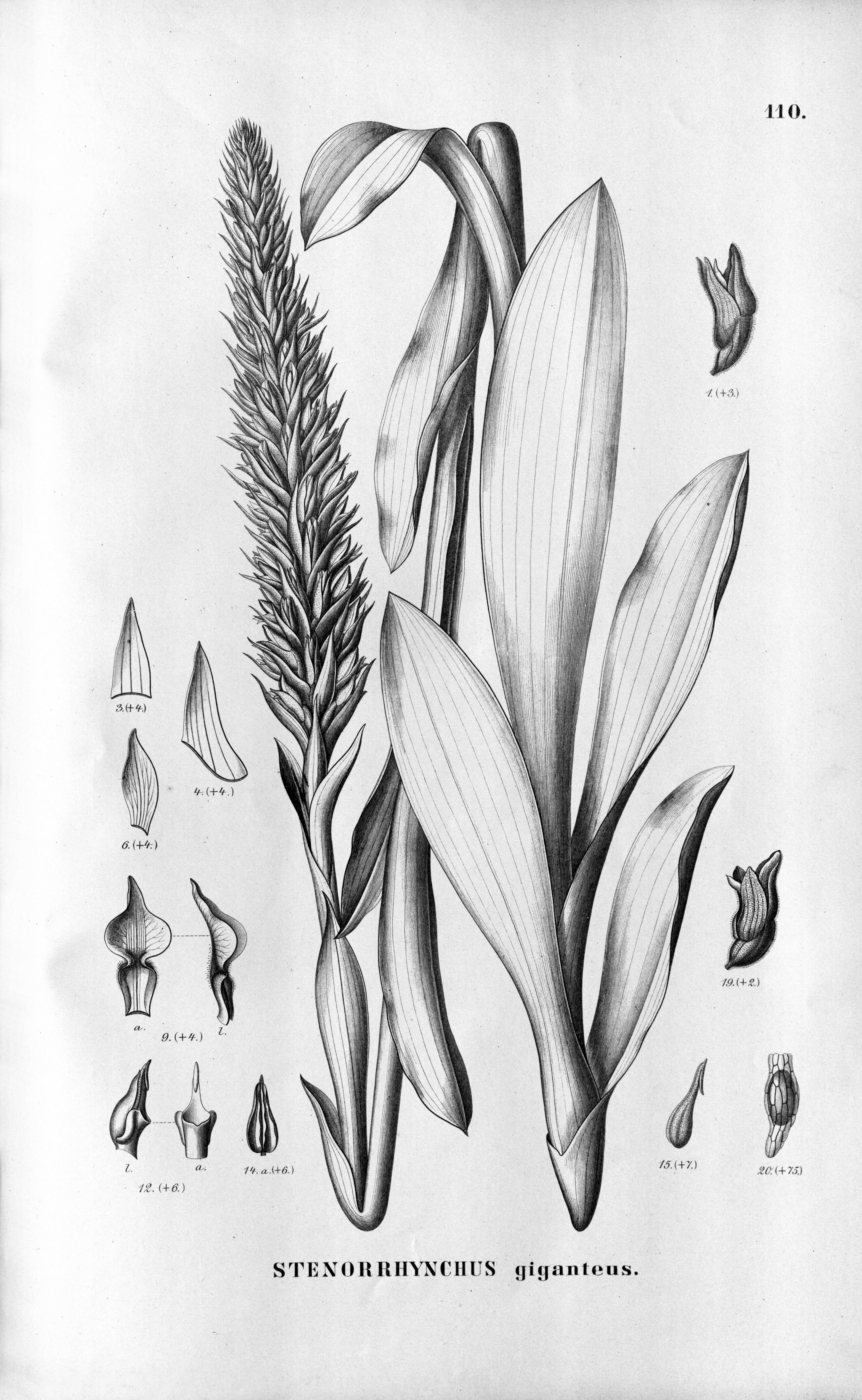 Illustration of Skeptrostachys gigantea (as syn. Stenorrhynchus giganteus, Kew Gardens 'World Checklist' link : Stenorrhynchos giganteum)